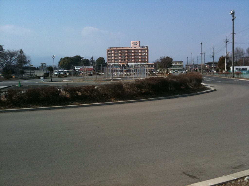 NASU Driving School